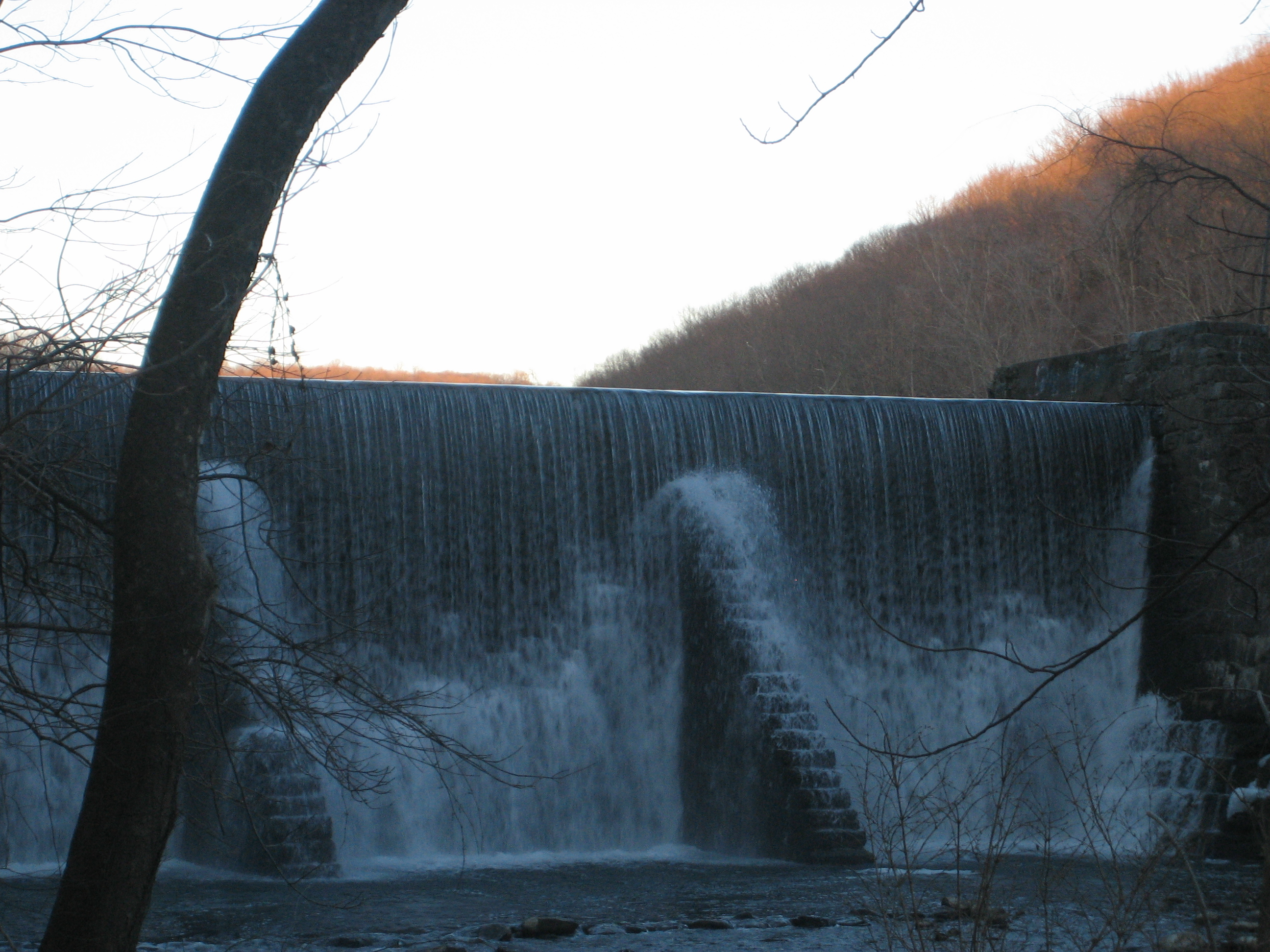 Lake Solitude Dam/Taylors Falls Originally built 1858.